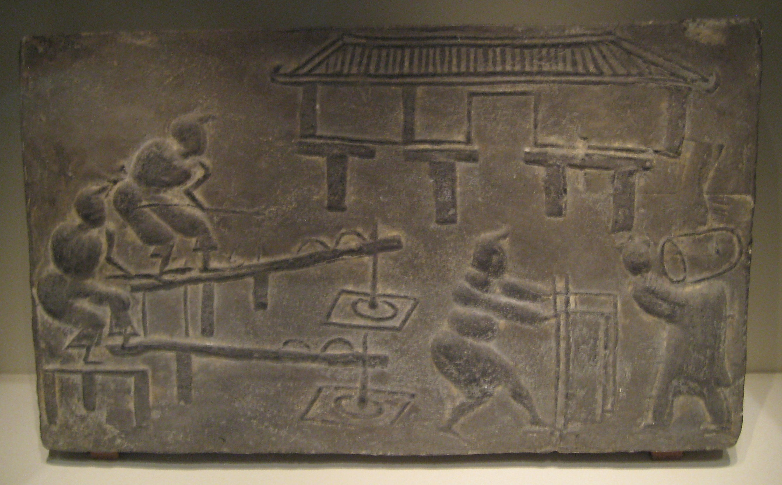 Brick relief depicting rice-husking from the Eastern Han Dynasty. Unearthed at Pengshan, Sichuan Province, 1955.